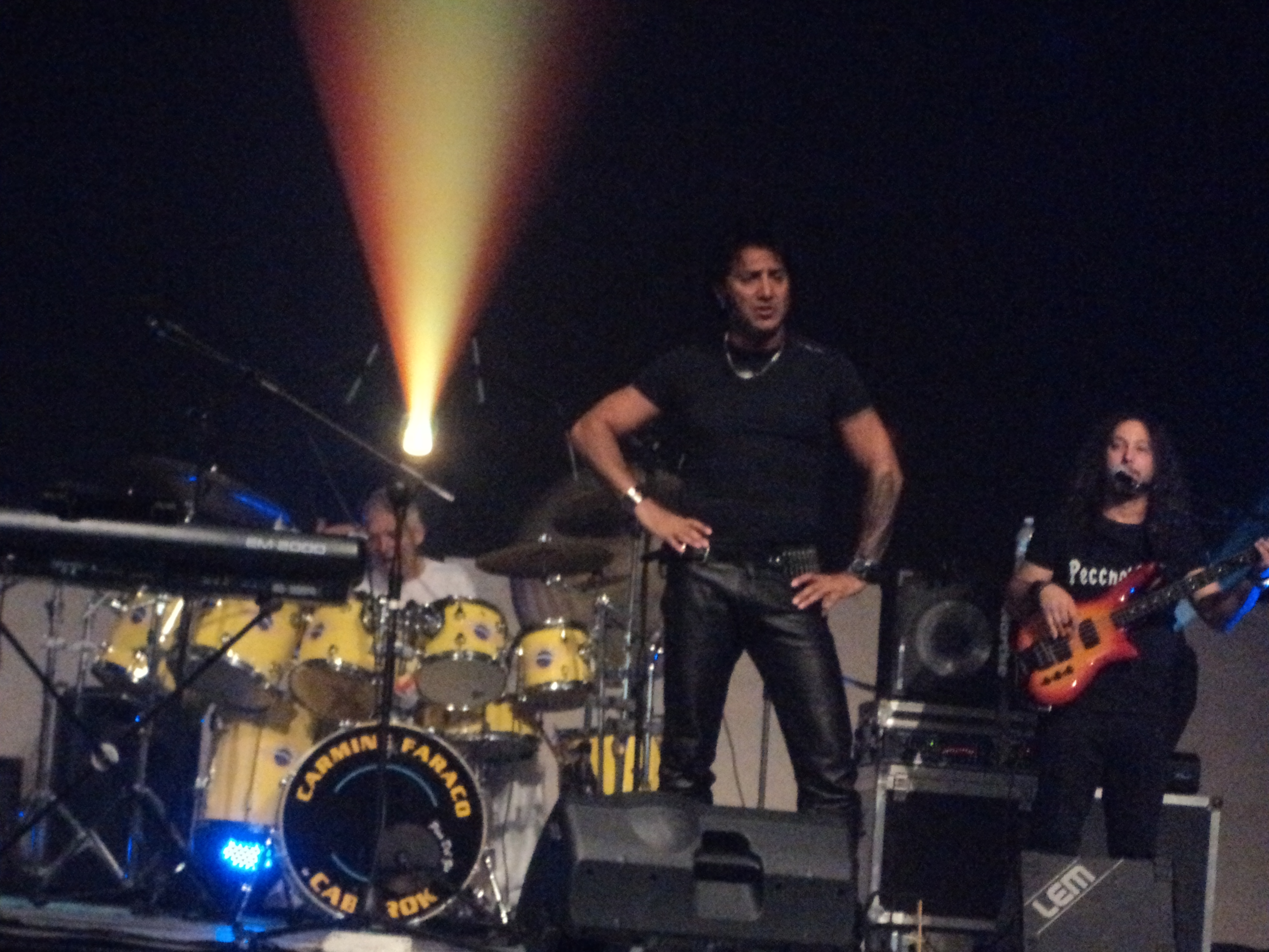 Carmine Faraco Live@Teatro Tendastrisce